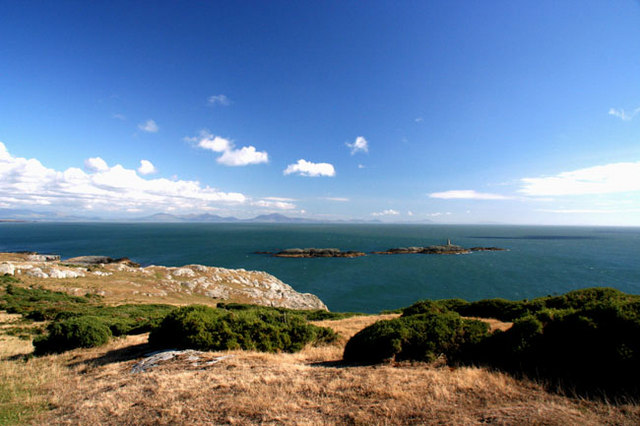 Rhoscolyn Beacon Rhoscolyn Beacon with the 'Rivals' the horizon.